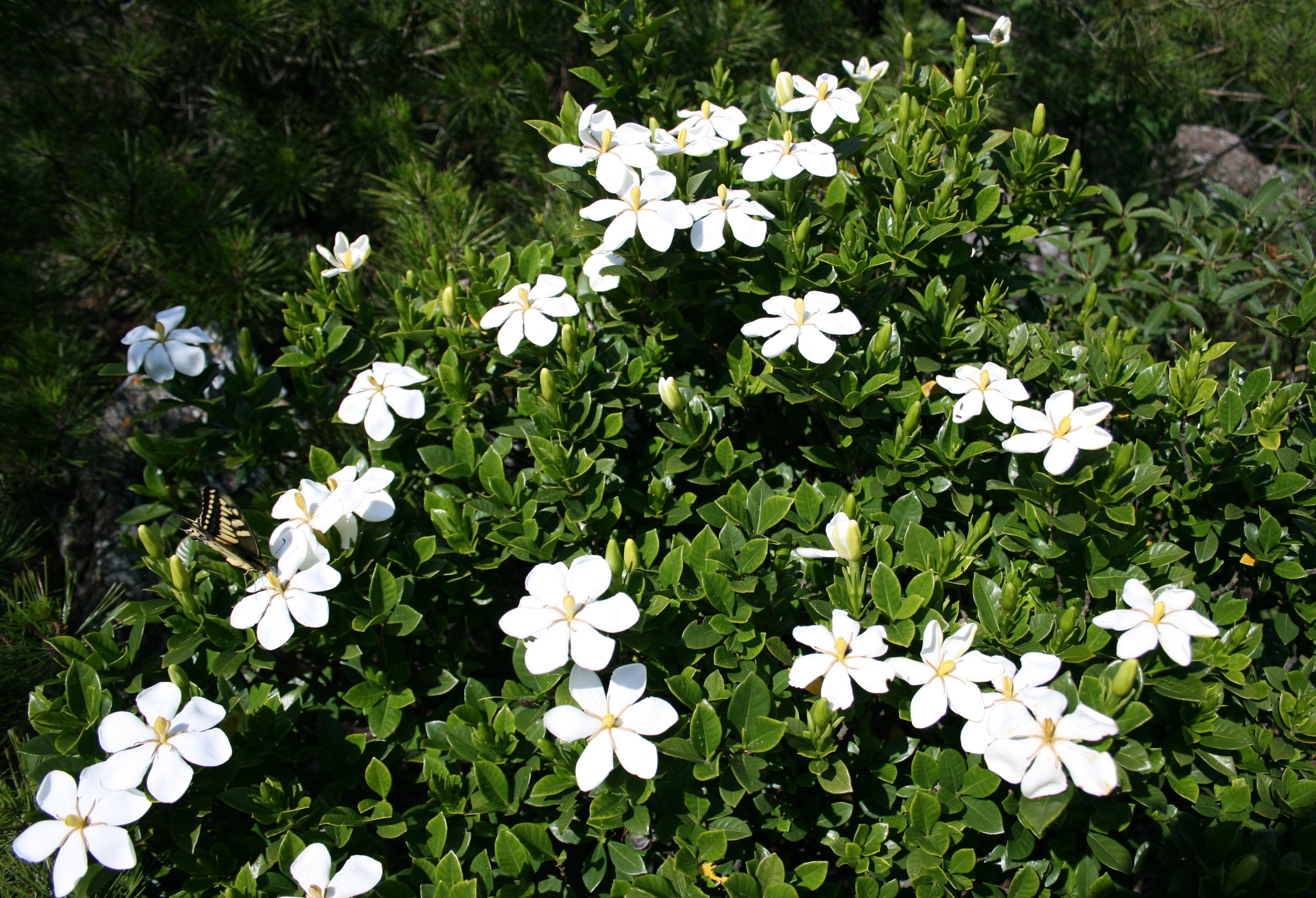 Gardenia jasminoides in Mount Yagi